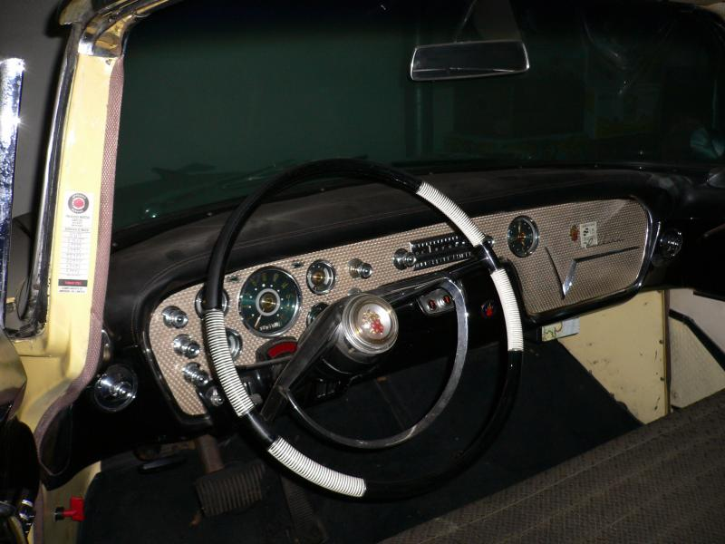 1956 Packard Executive Series 5670 dash is typical for all 1955 and 1956 Packards. Executives have senior model gold meshwork but junior's blue-faced instruments and ribbed knobs. This car has optional electric Push Button gear selector, "Wonderbar" signal seeking radio, power antenna, padded dash cover, tinted glass, and rare hand brake warning light in place of the drive range quadrant indicator on the steering column, the latter an option that was only available in combination with push button selector. Export speedometer reading km/h instead of MPH.